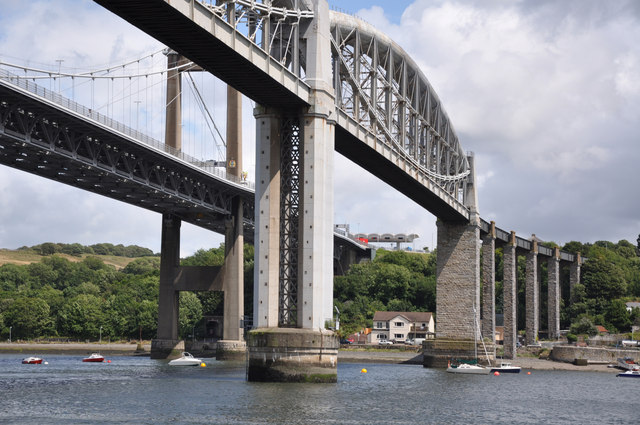 Brunel's Bridge and the road bridge - Saltash